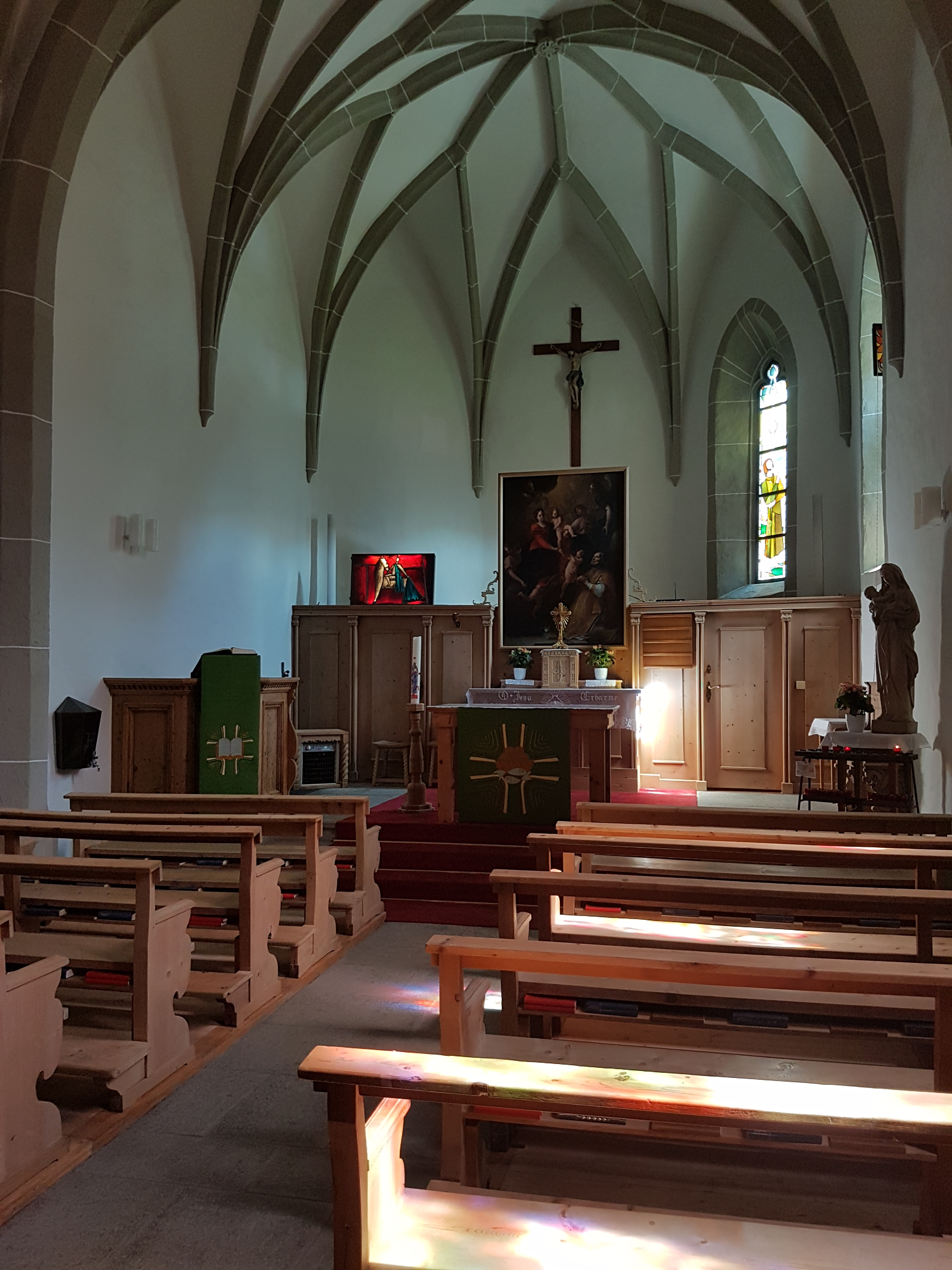 Baselgia Sta Chatrigna e Sta Barbara (Church of St. Catherine and St. Barabar) in Zuoz, Grisons, Switzerland. First mentioned in 1446, rebuilt in 1509/1510.